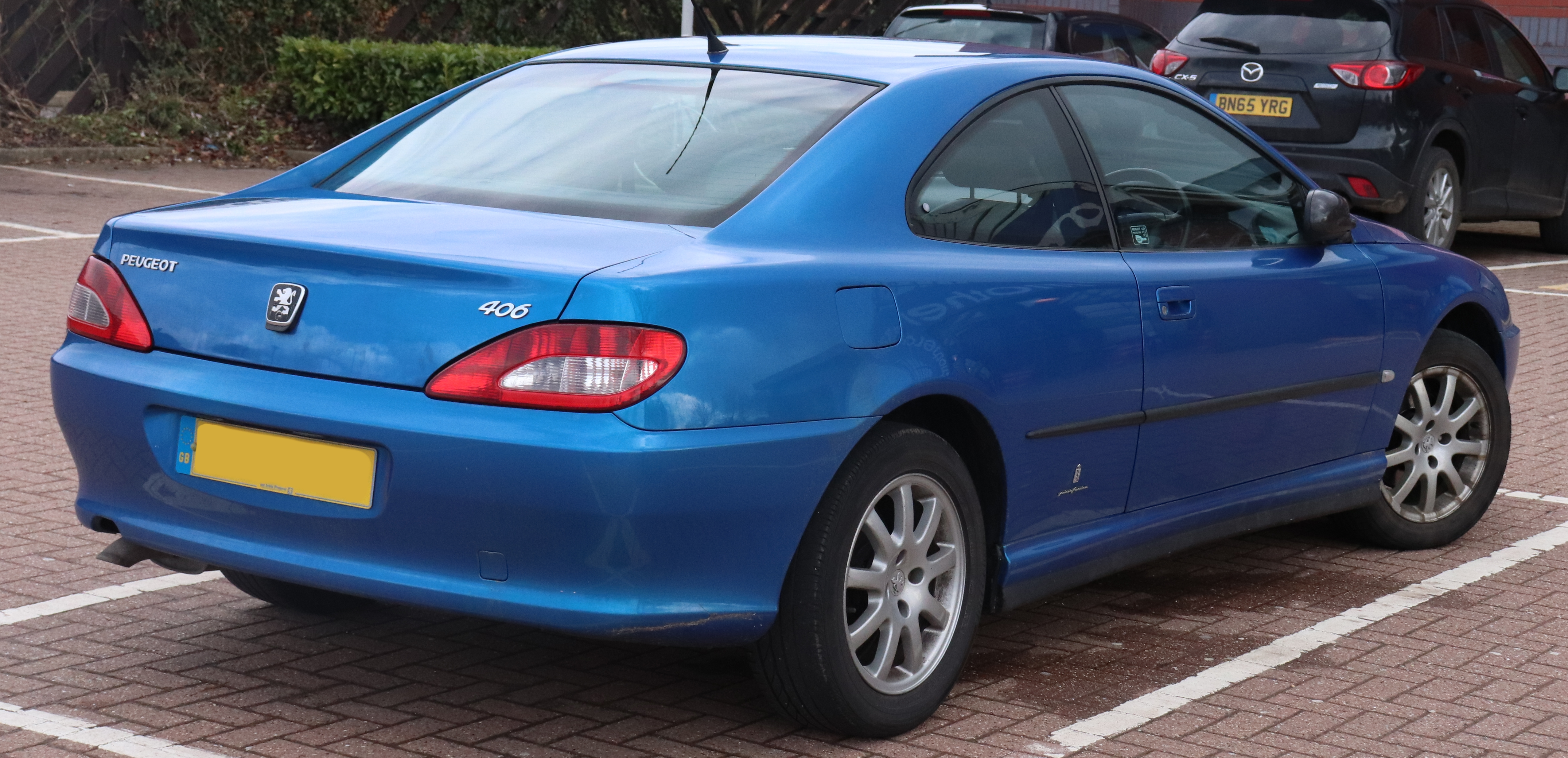 2003 Peugeot 406 HDi Coupe SE 2.2 Rear Taken in Leamington Spa